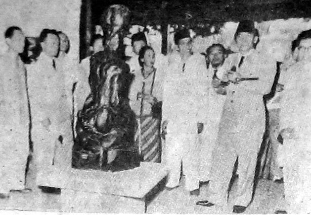 Sukarno at the Sonobudoyo Museum in Yogyakarta